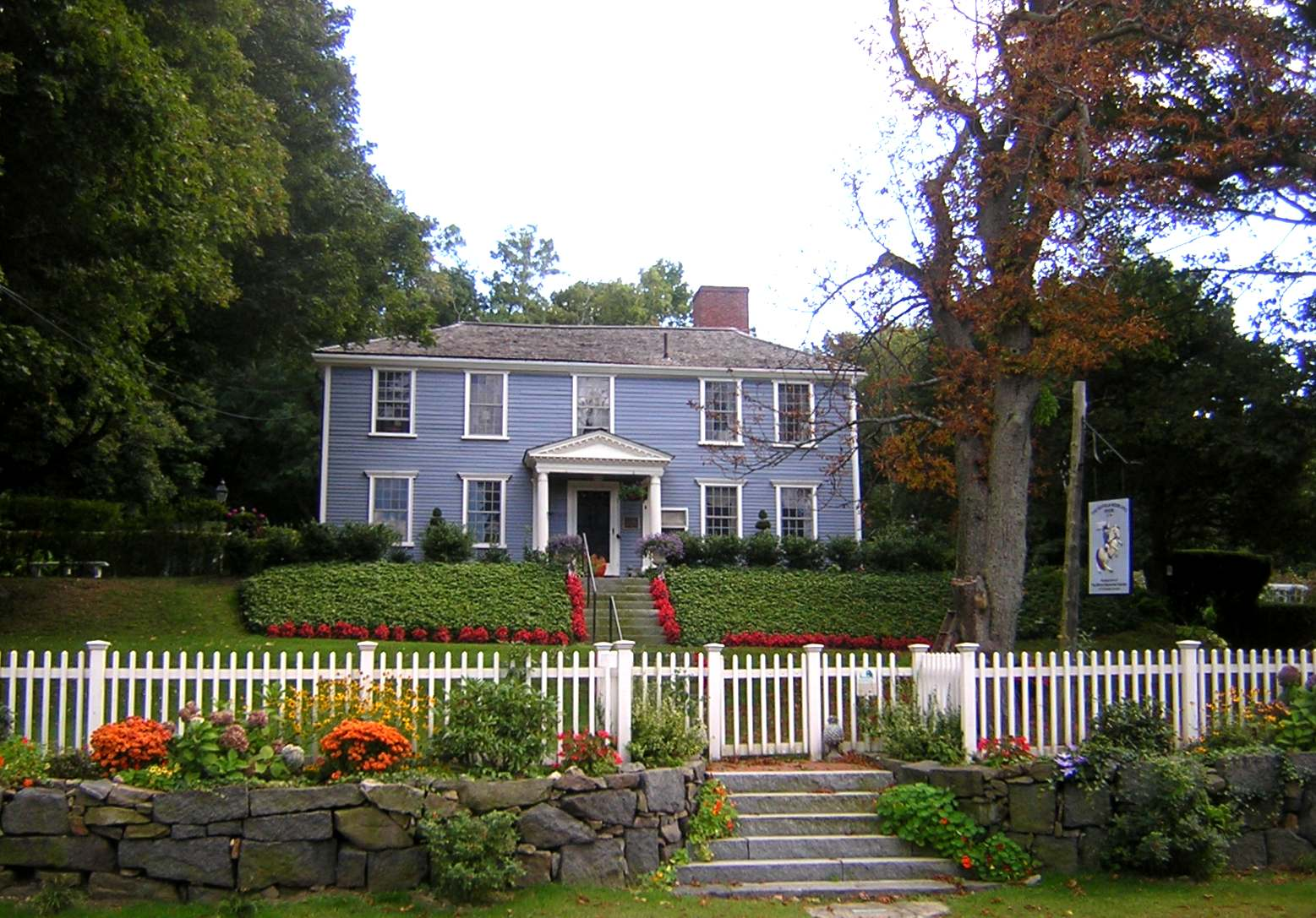 The Suffolk Resolves House, 1370 Canton Avenue, Milton, MA This is the Headquarters of the Milton Historical Society. They have used this image for a refrigerator magnet.